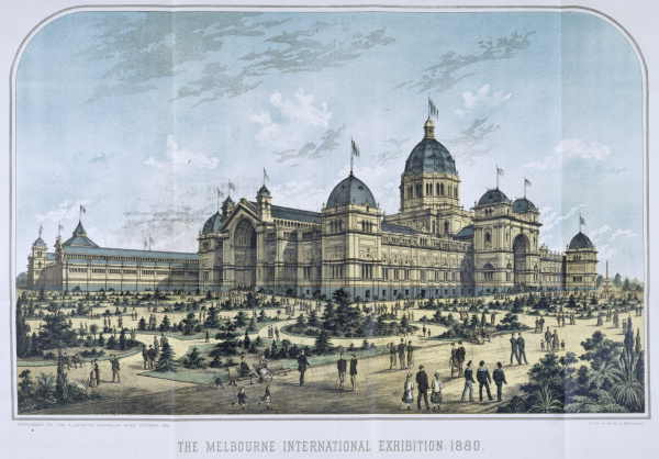 Lithograph of the 1880 International Exhibition at the Royal Exhibition Buildings, Melbourne, Australia.